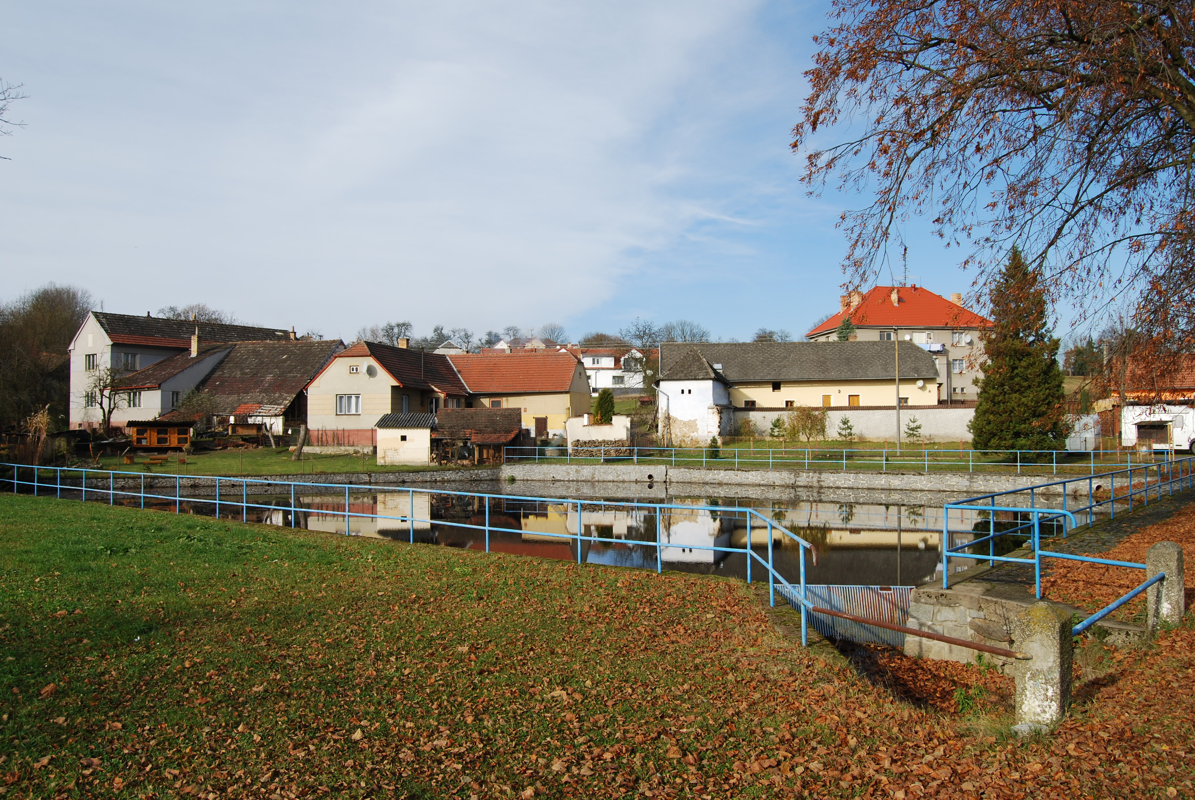 Hosty village in České Budějovice District, Czech Republic.